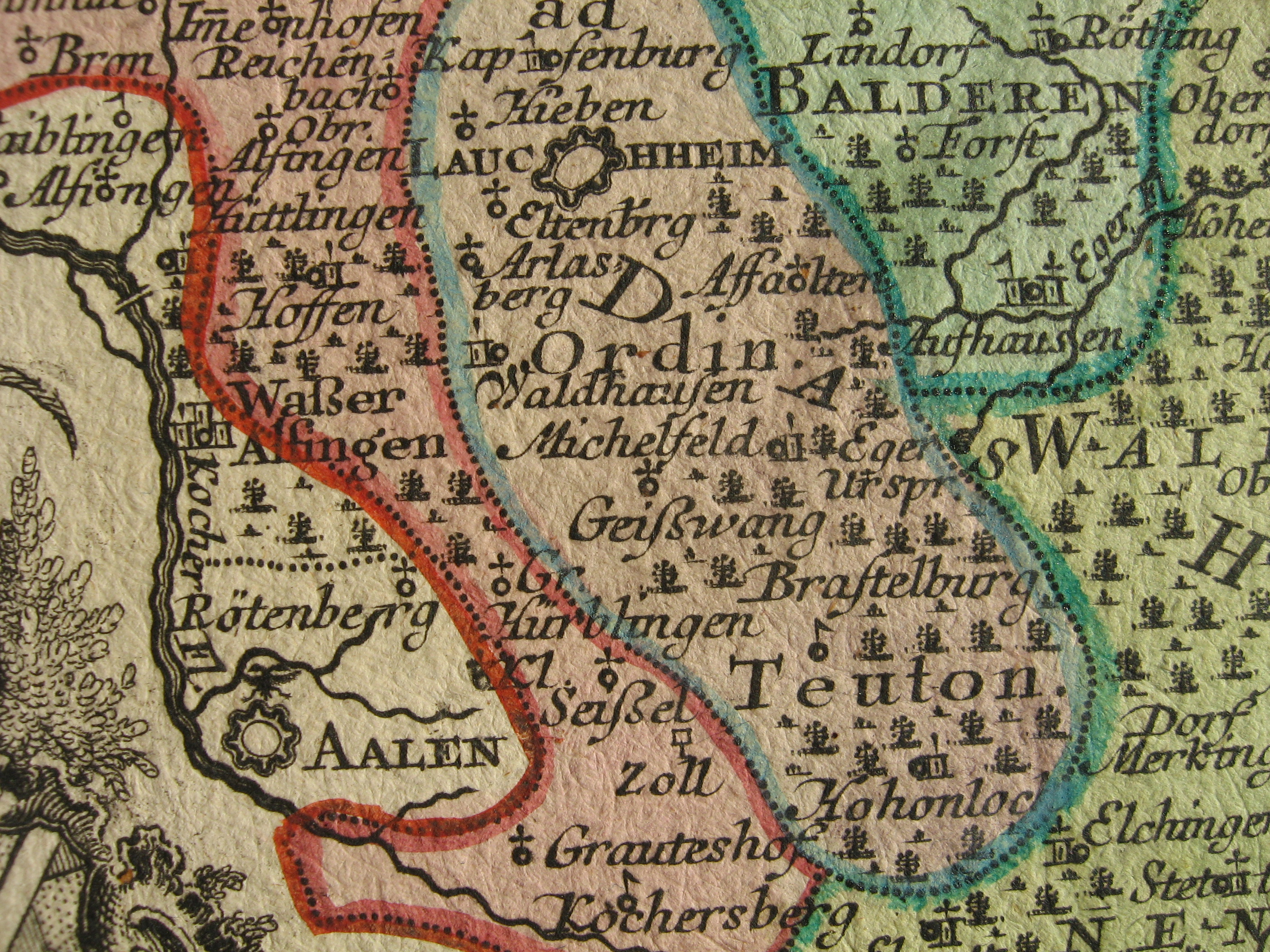 Territory of the Imperial City of Aalen and neighboring area. Cropped from a map of southwestern Franconia by M. Seutter, circa 1745.